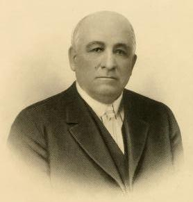 Solomon D. Butcher (1856-1927), itinerant photographer in Custer County, Nebraska and elsewhere.